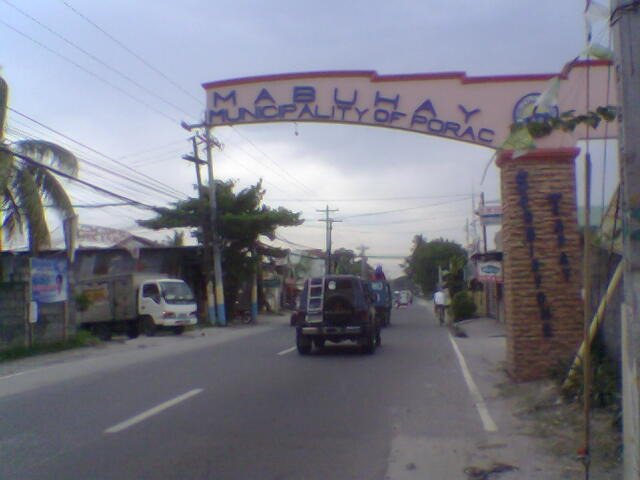 Welcome arch in Porac